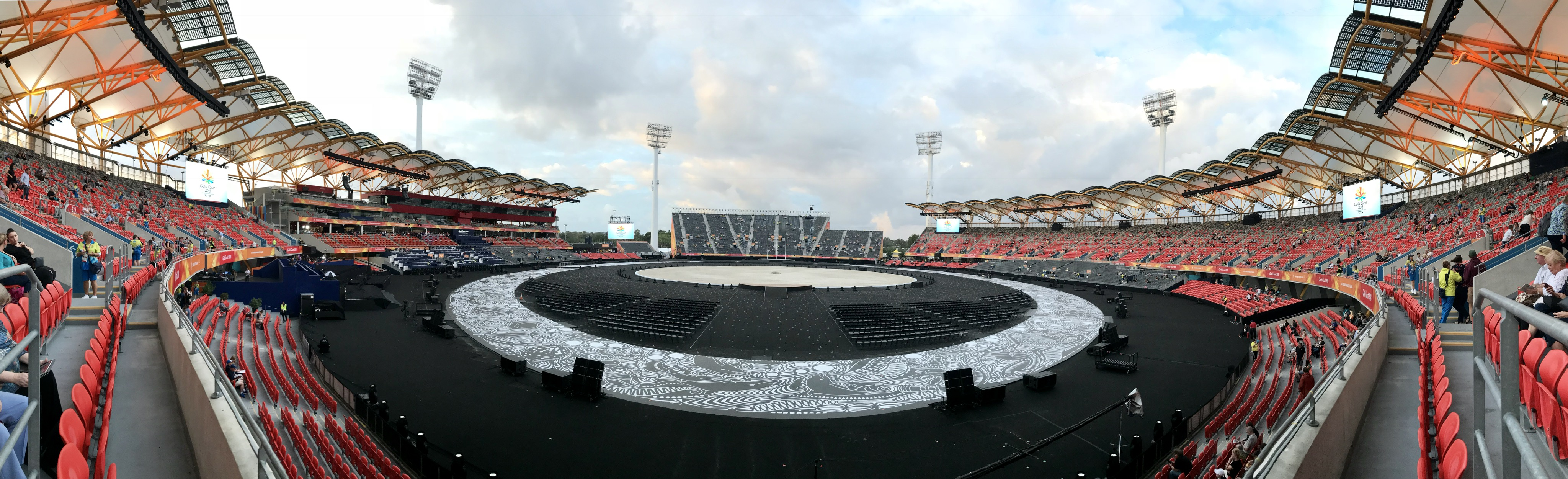 Carrara Stadium, set up for the 2018 Commonwealth Games opening ceremony, Gold Coast, Queensland